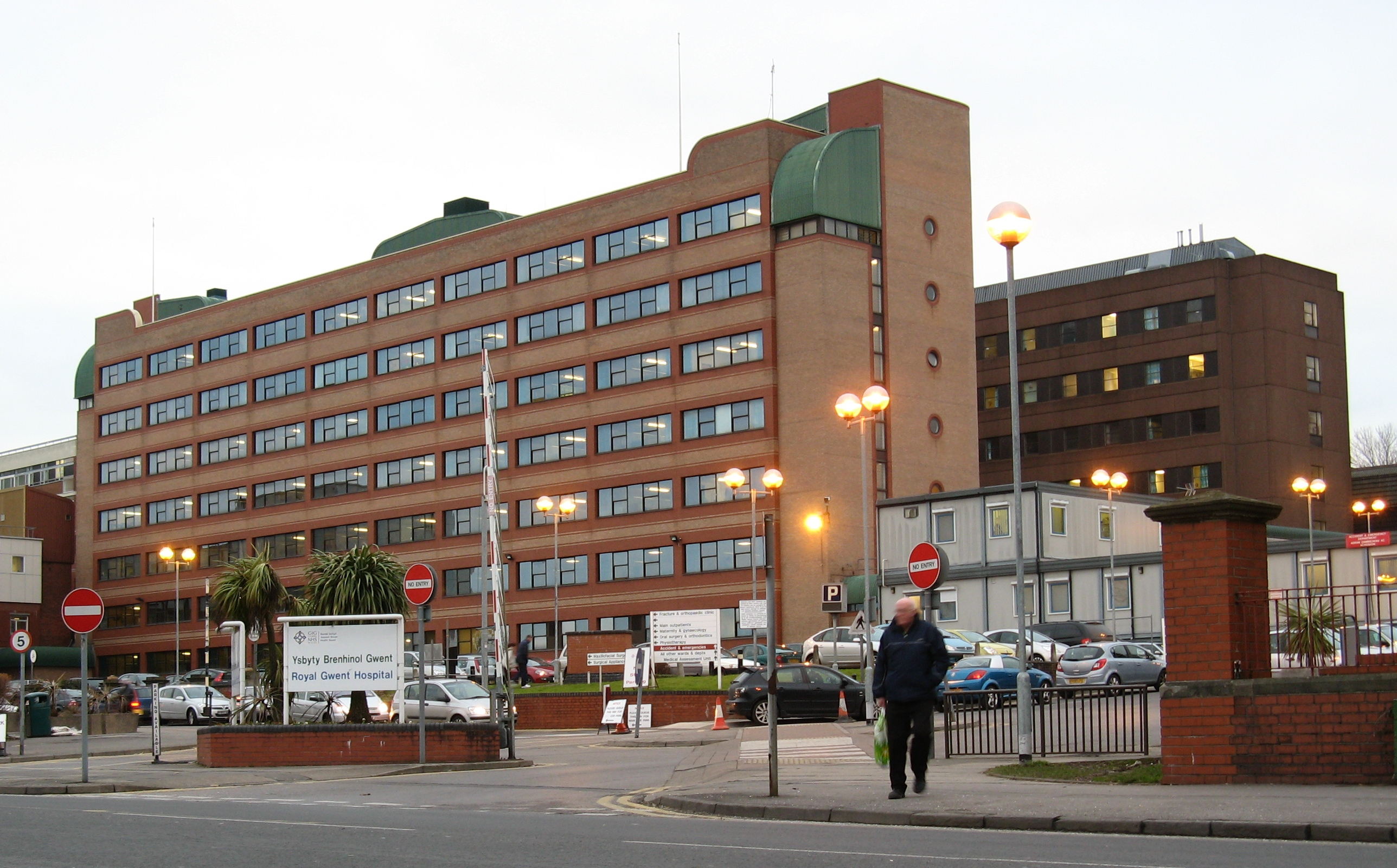 Cardiff Road entrance of the Royal Gwent Hospital, Newport.